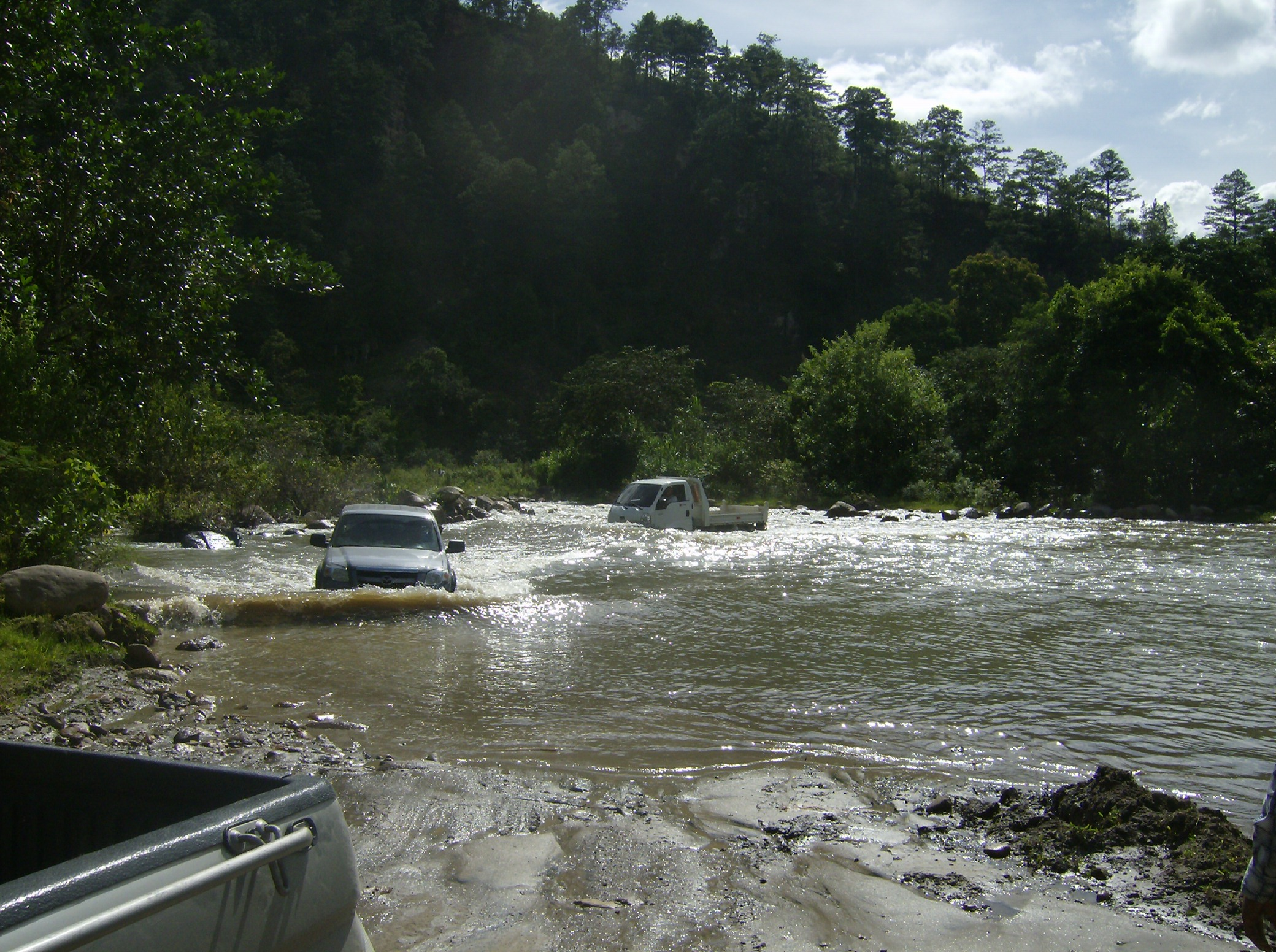 River near La Iguala, a municipality in the Honduran department of Lempira.